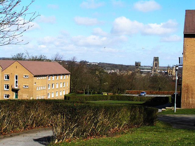 Grounds of Grey College, Durham University